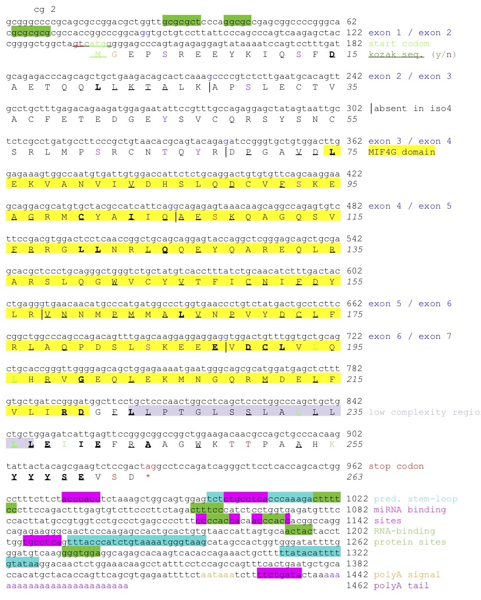 Conceptual translation for the isoform 1 of the MIF4GD protein, annotating for the MIF4G domain, low complexity region, conserved amino acids, RNA-binding proteins, miRNA binding sites, predicted stem-loop structures in UTRs, and predicted post-translational modifications.